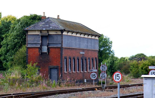 Disused signalbox at Princes Risborough